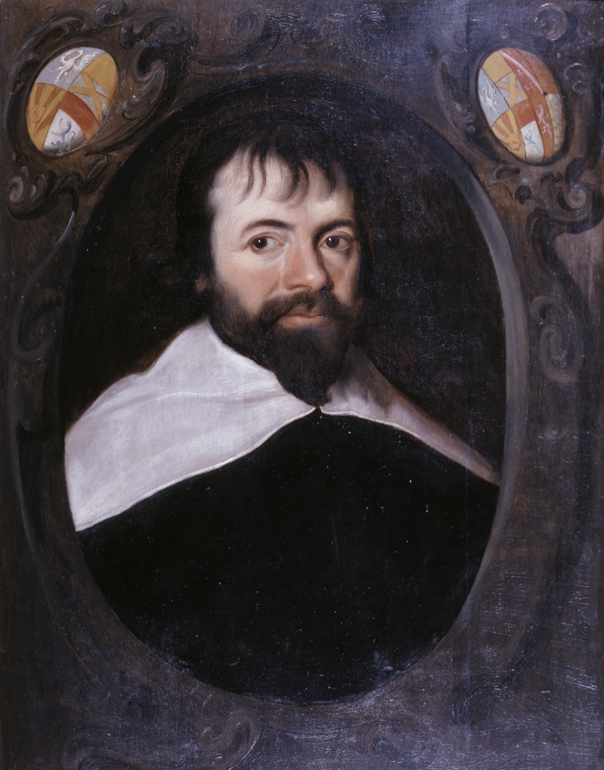 A 85 x 70 cm oil-on-panel portrait painting of Thomas Cotton, 2nd Baronet, by Cornelis Janssens van Ceulen. British Museum. He married, firstly, Margaret Howard, a daughter of Lord William Howard, of Naworth Castle, Cumberland, by whom he had one son, John. The heraldic cartouche at left shows Cotton (of 4 quarters); that at right shows Cotton (of 4 quarters) impaling Howard (of 4 quarters).